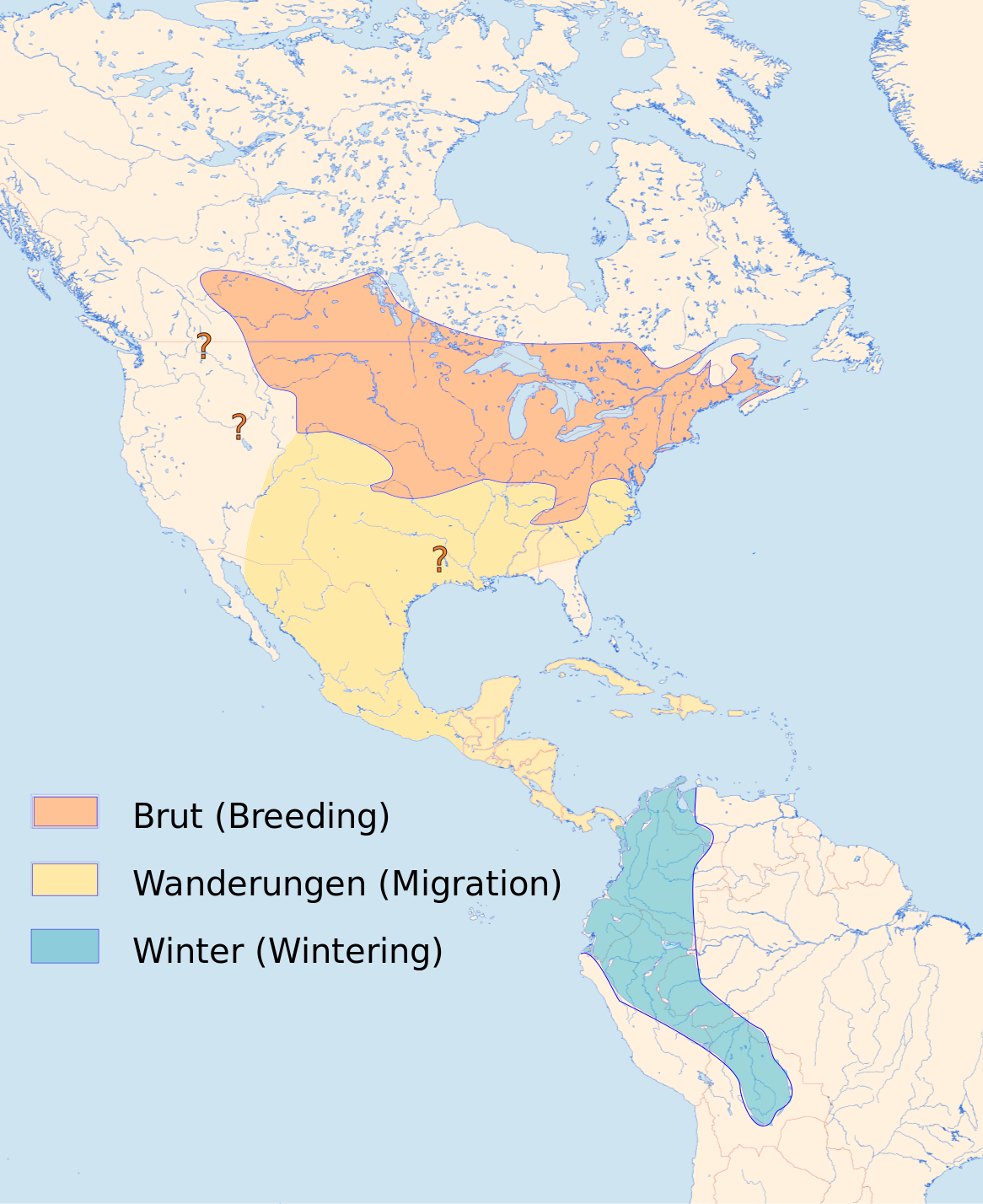 Distribution of the Black-billed Cuckoo (Coccyzus erythropthalmus)